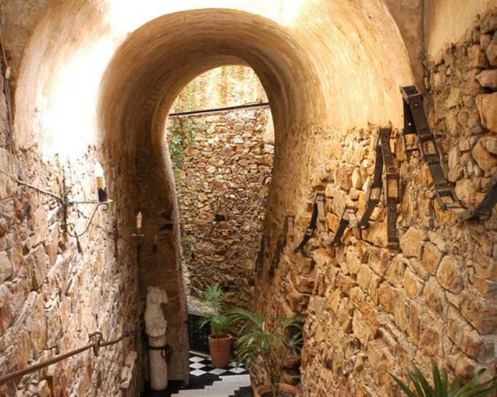 Entrance to the roman spa of Alange